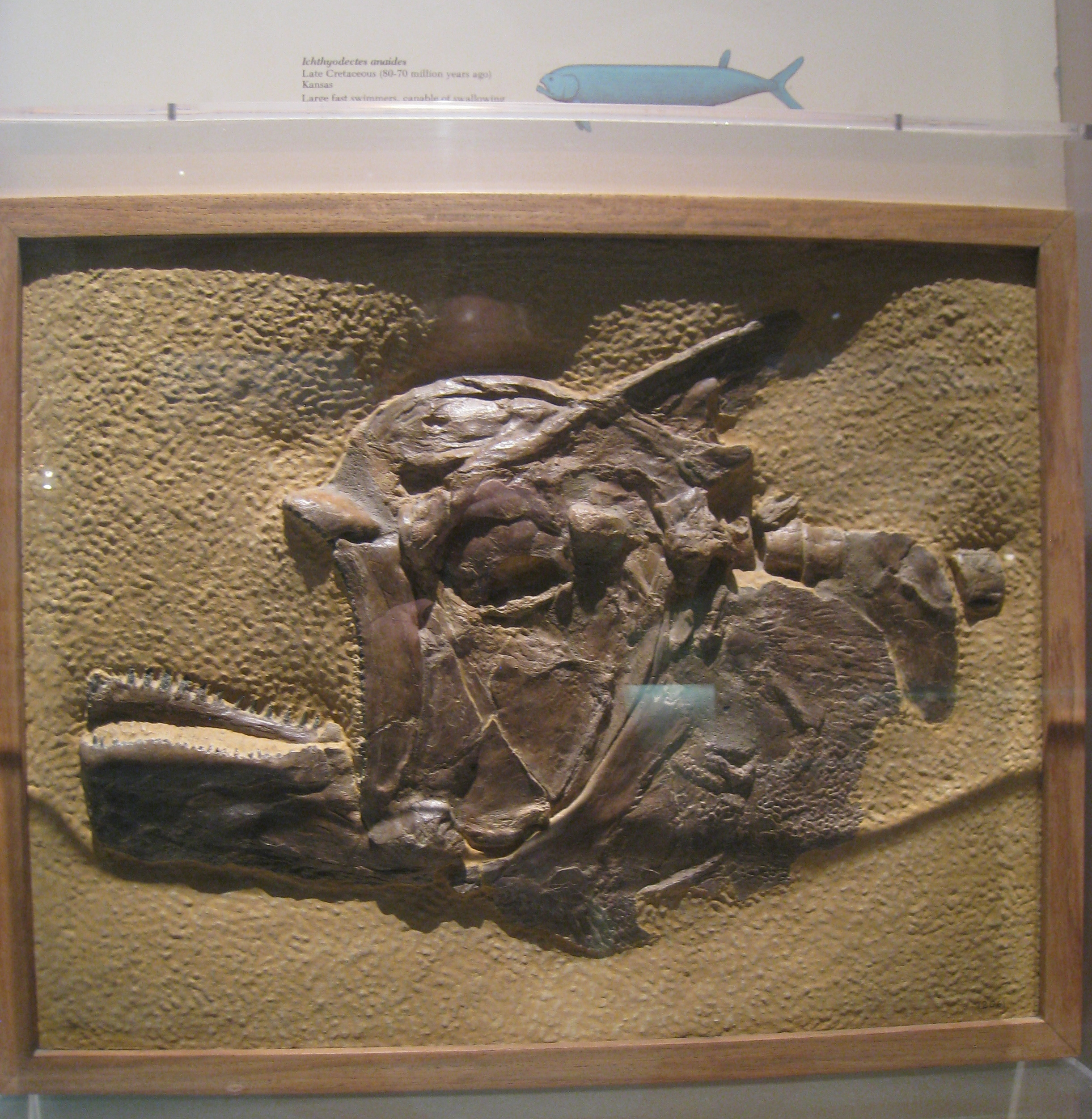 Ichthyodectes anaides fossil specimen in the National Museum of Natural History, Smithsonian Institution, Washington, DC, USA.